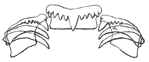 Drawing of radula of Velutina velutina, synonym: Velutina laevigata.